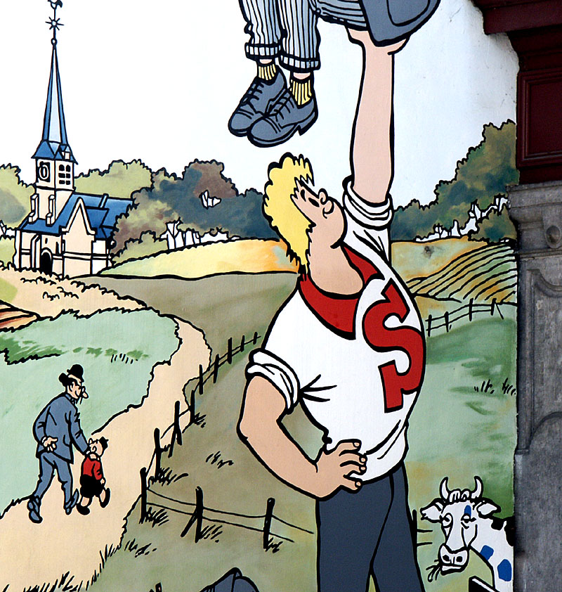 Jan Spier on the Nero wall painting in Brussels